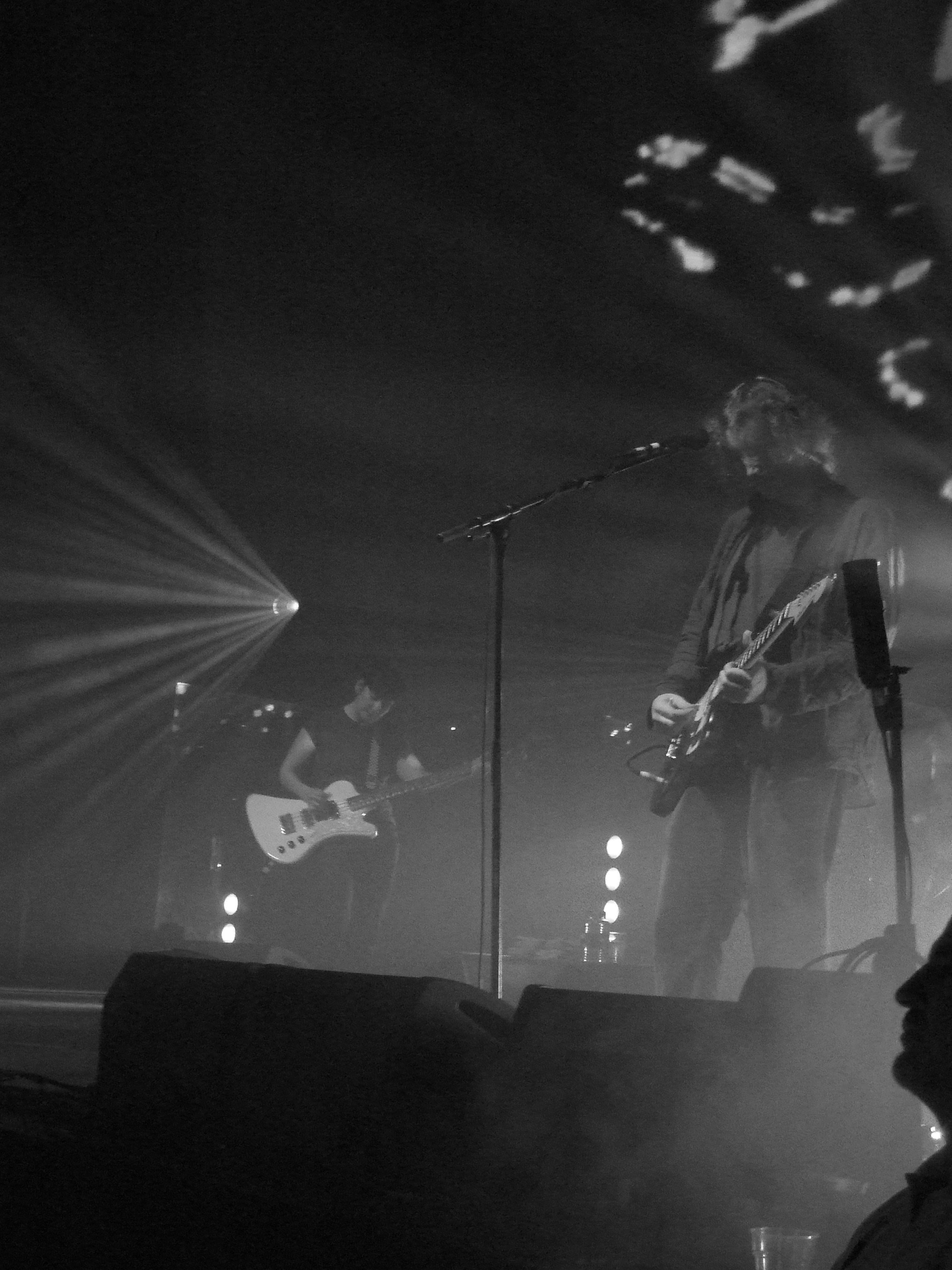 My Bloody Valentine @ The Roundhouse